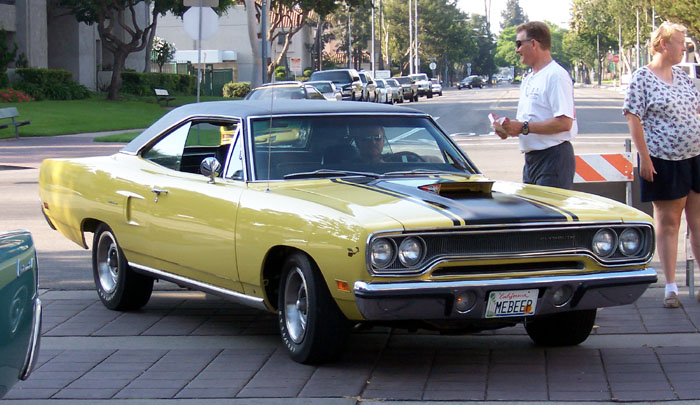 1970 Plymouth Road Runner. This car has the Hemi engine and the "Air Grabber" retractable hood scoop. Note the appropriate "MEBEEP" license plate, too.